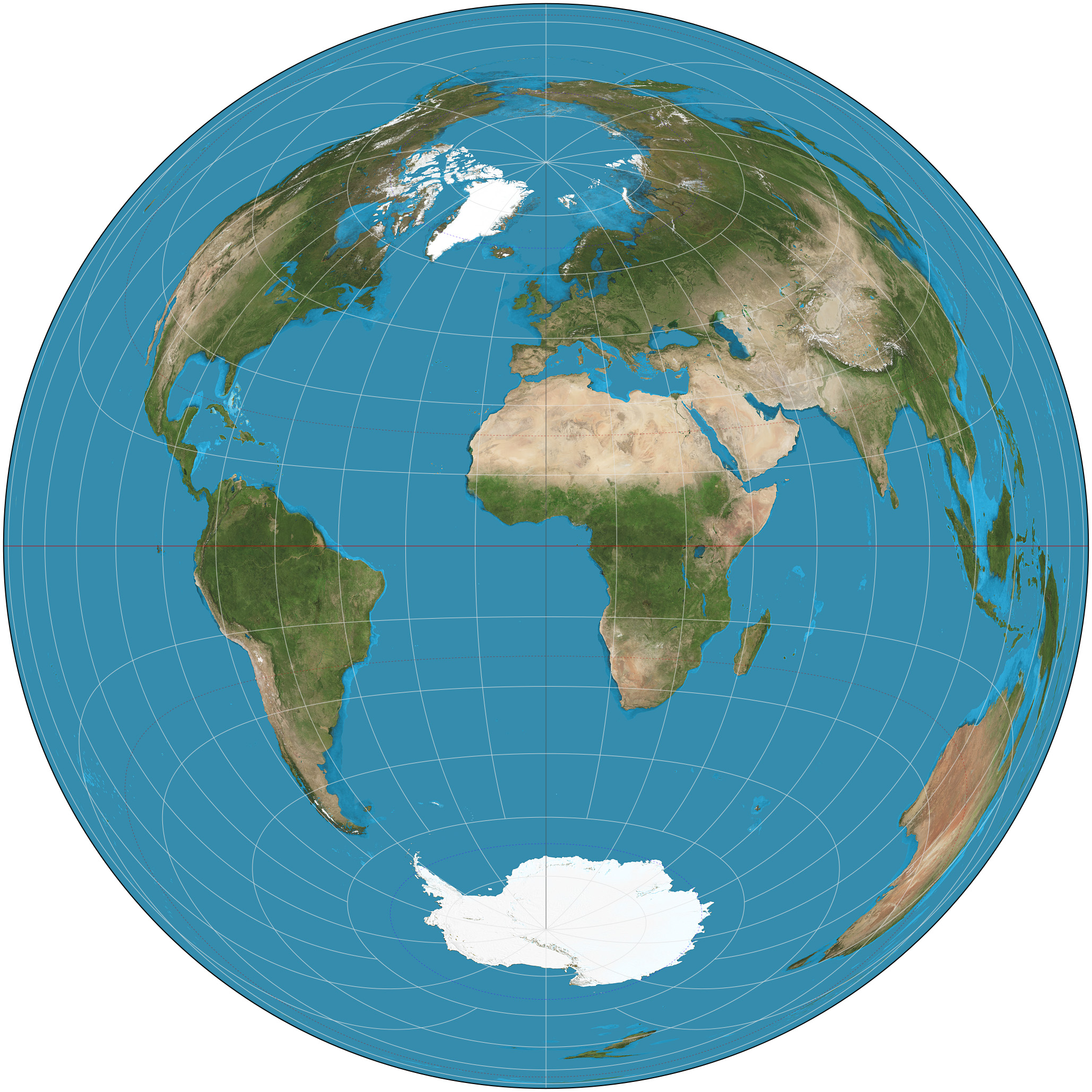 The world on Lambert azimuthal equal-area projection. 15° graticule. Imagery is a derivative of NASA’s Blue Marble summer month composite with oceans lightened to enhance legibility and contrast. Image created with the Geocart map projection software.